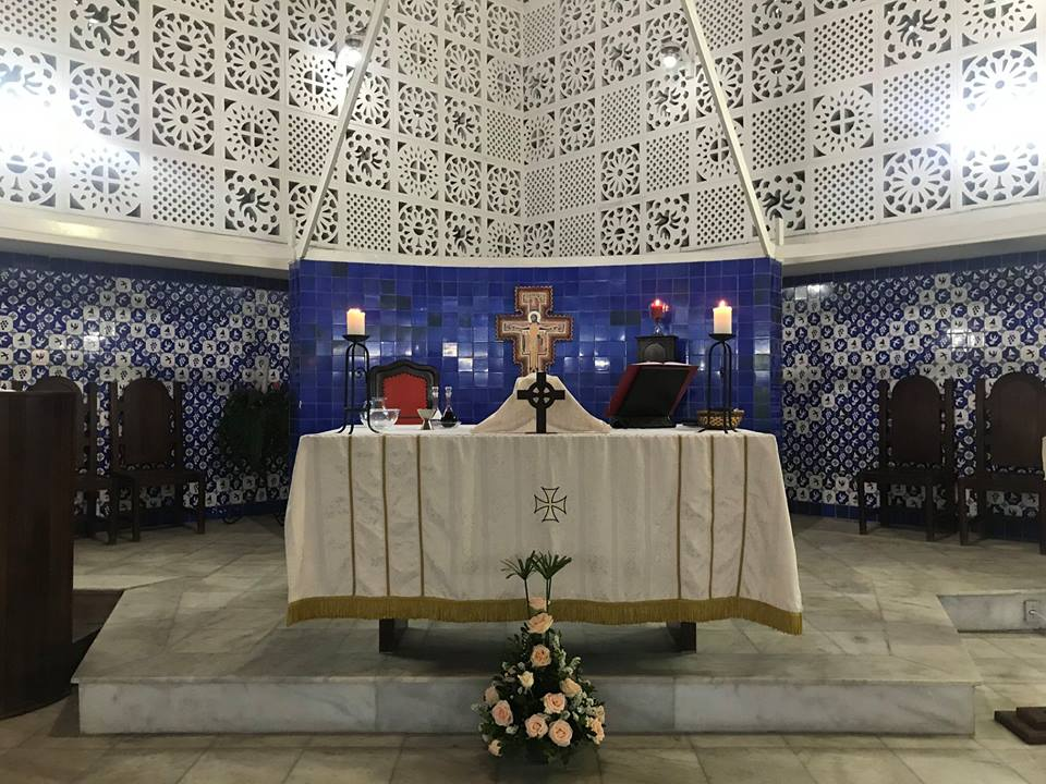 The Cathedral Church of Good Samaritan, of Anglican Diocese of Recife